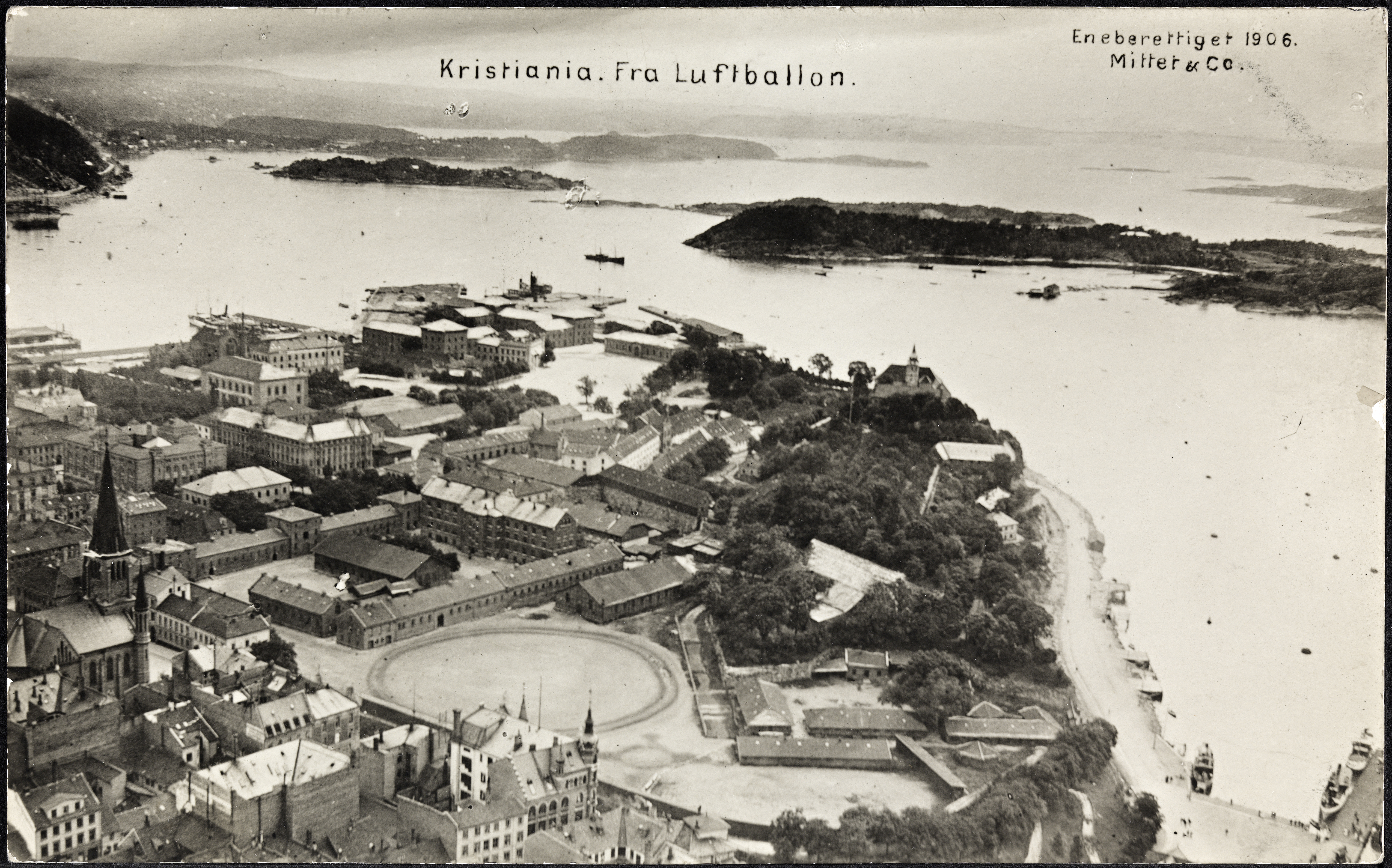 Beskrivelse / Description: Postkort / Postcard. Flyfoto / Aerial photography. Utsikt mot Akerhus festning, Festningsplassen og Kontraskjæret. Til venstre i bildet sees Johanneskirken som ble revet i 1928. Dato / Date: 1906 Sted / Place: Oslo Fotograf / Photographer: Fredrik Blom-Olsen Utgiver / Publisher: Mittet & Co. Digital kopi av original / Digital copy of original: s/h postkort, sølvgelatin Eier / Owner Institution: Nasjonalbiblioteket / National Library of Norway Lenke / Link: Bildesignatur / Image Number: bldsa_PK05620